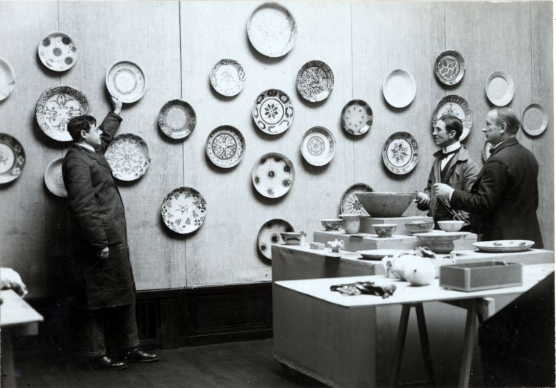 Interior from the exhibition Exotic Art and Handicraft